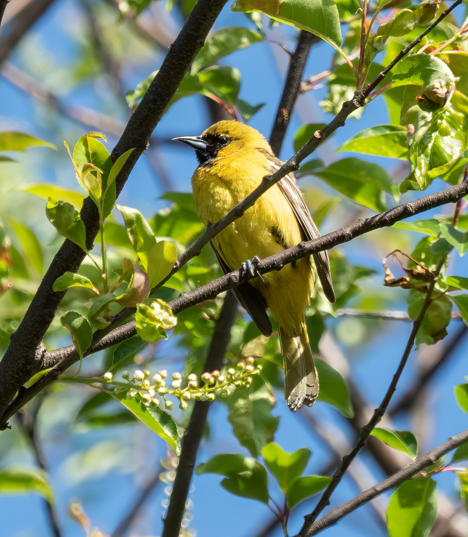 Juvenile orchard oriole in Green-Wood Cemetery